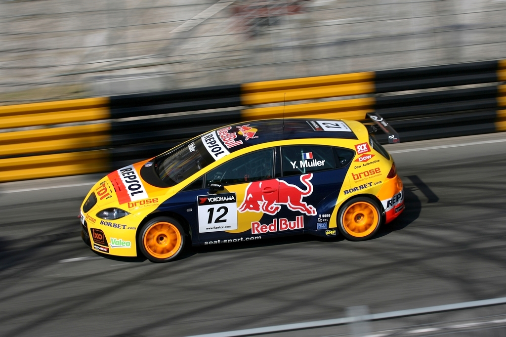 Yvan Muller driving his SEAT Leon TDI at Macau in 2008.